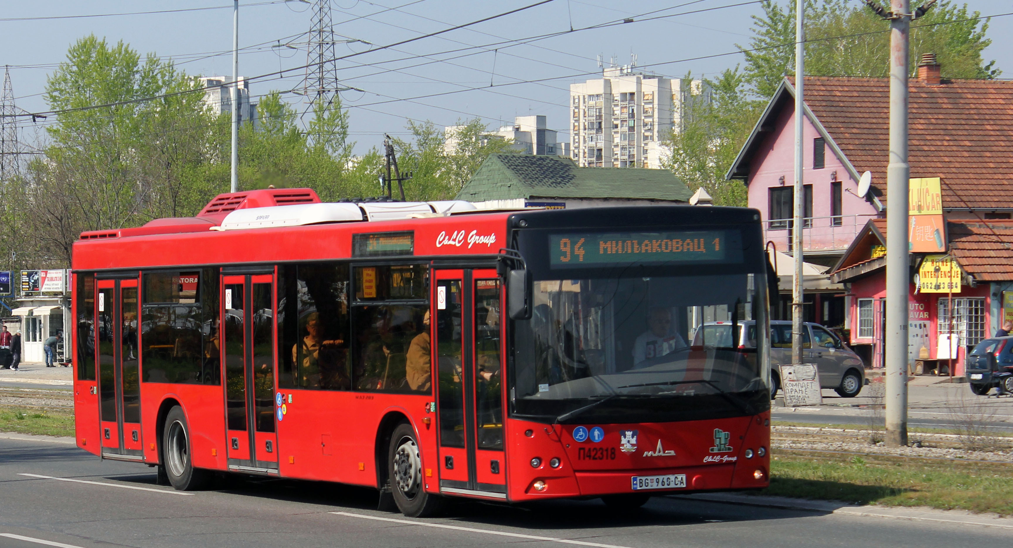 MAZ-203 city bus of C&LC group private company on public transport line No.94.